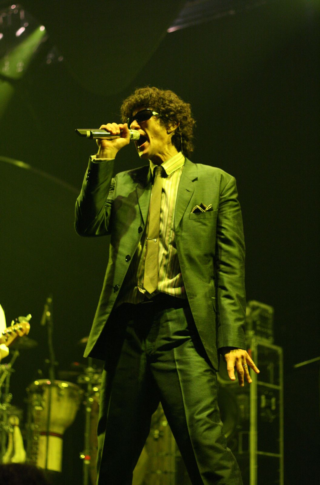 Mike D of the Beastie Boys